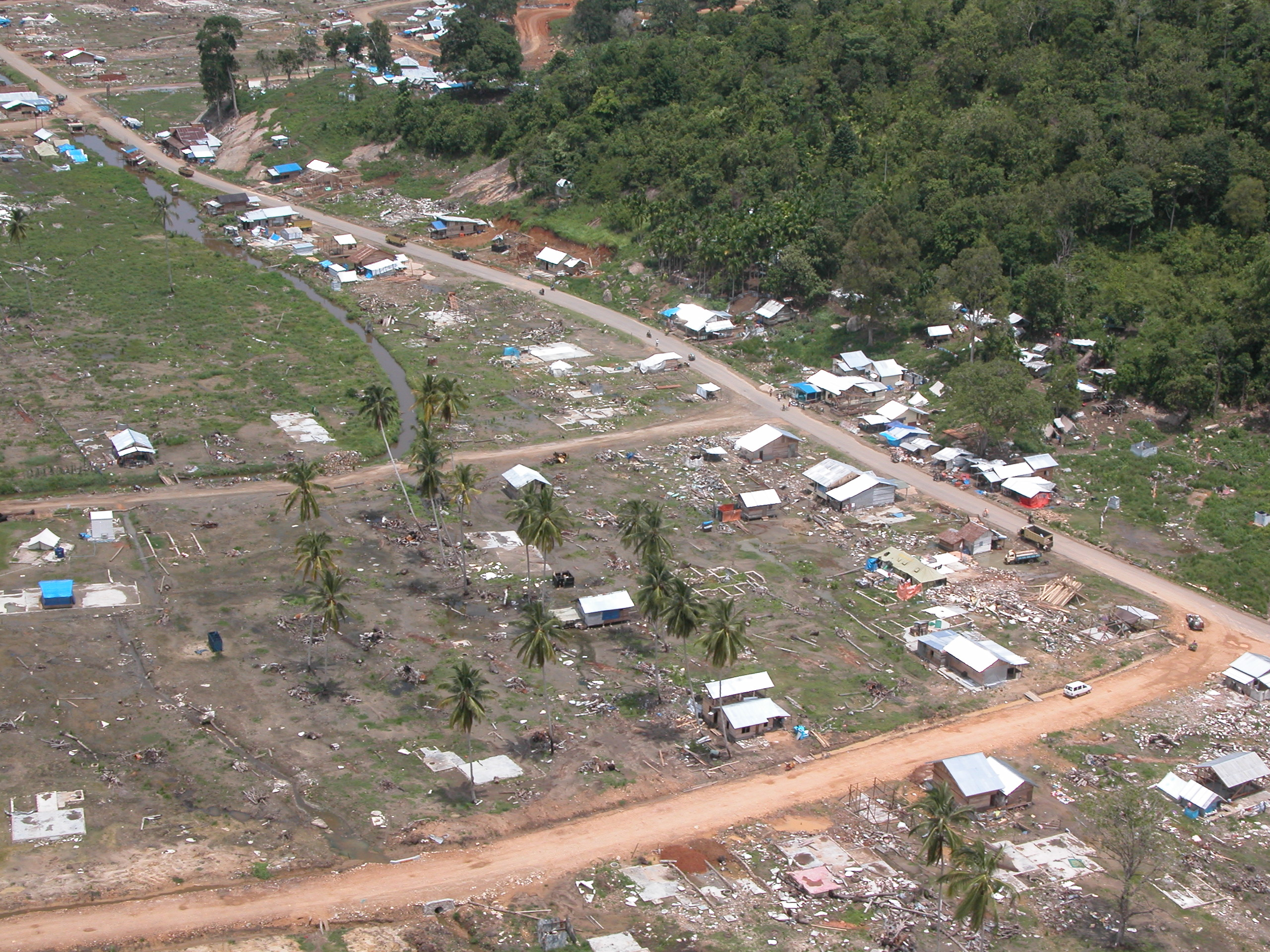 Calang, Aceh Jaya Regency.